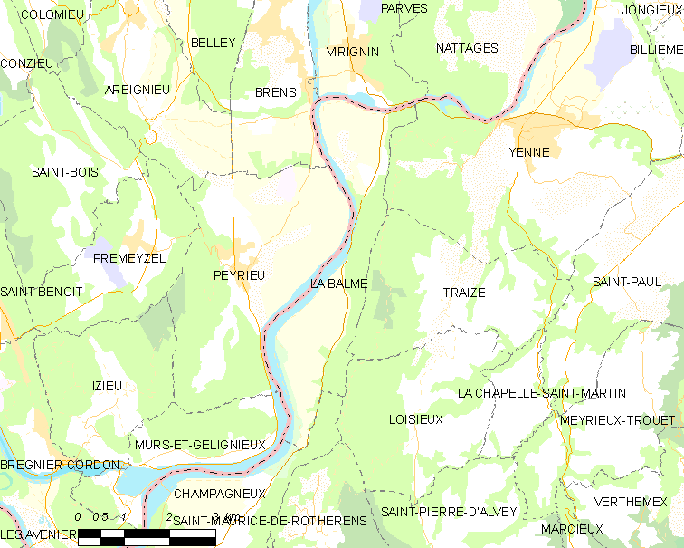 Map of French municipality